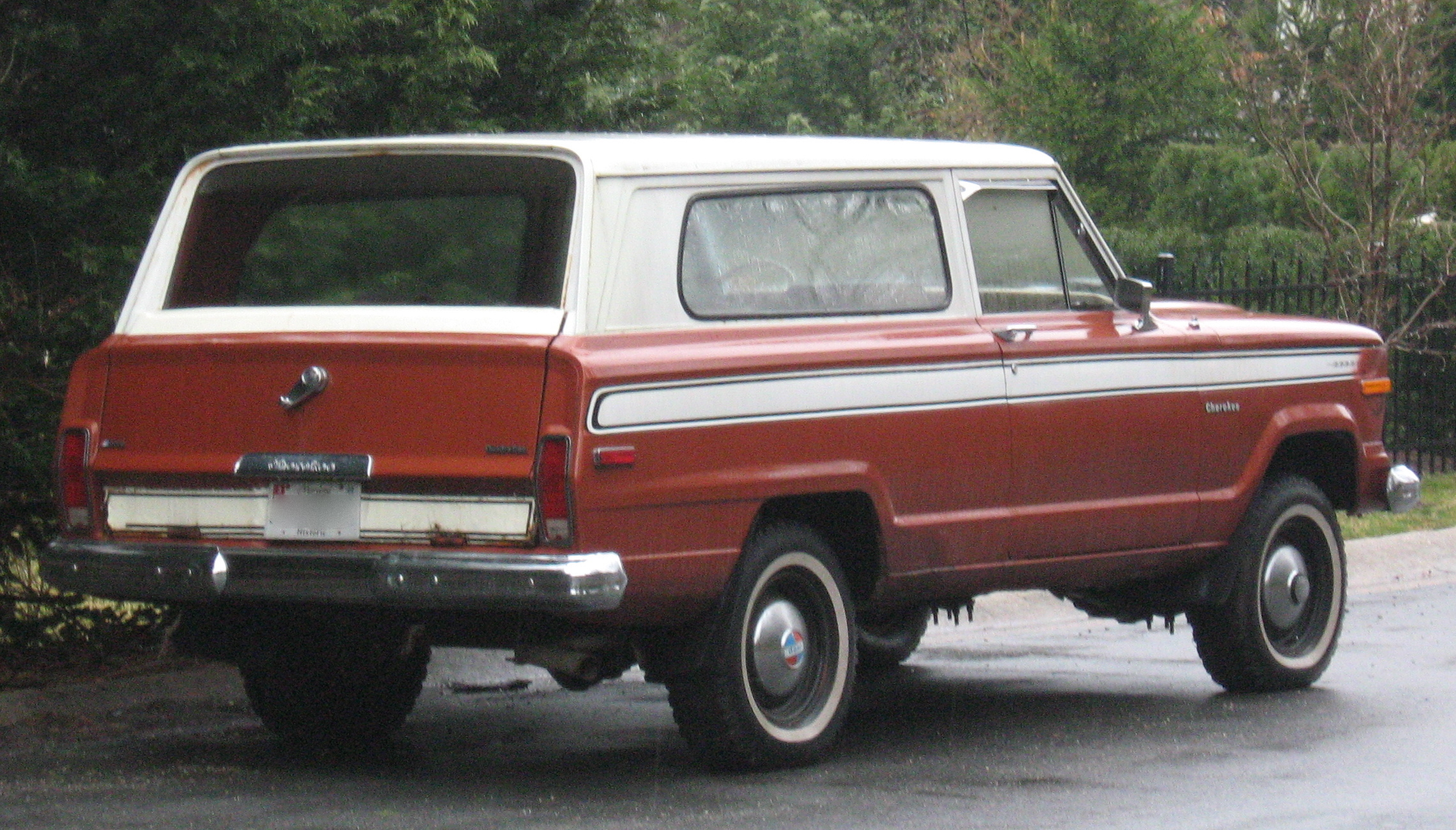 1974 (?) Jeep Cherokee (full-size) SJ two-door "sport wagon" base model with standard four-wheel drive. A pioneering SUV by American Motors Corporation. View from the rear of this car finished in tan and white.